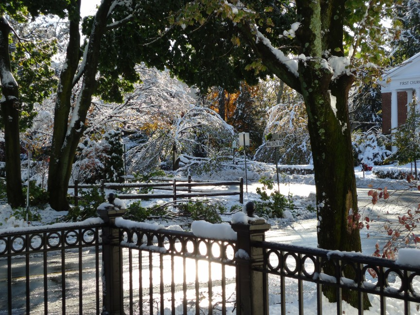 An early snowstorm in late October 2011 in the northeastern United States dropped six inches of wet heavy snow on trees which had not shed their leaves. The storm toppled trees, downed power lines, and left hundreds of thousands of homes without electricity or heat. Photo: looking towards Springfield Avenue in Summit, New Jersey, Union County.